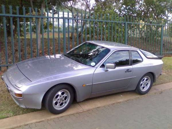 My grey Left-hand drive 1985/2 Porsche 944.